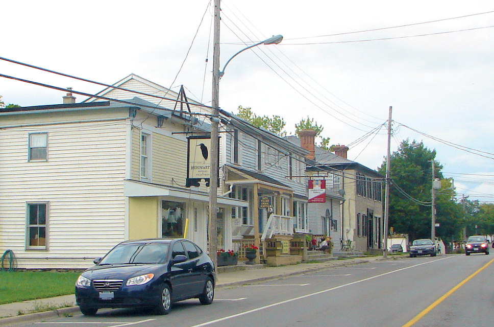 Main street in Bath (part of Loyalist Township), Ontario, Canada